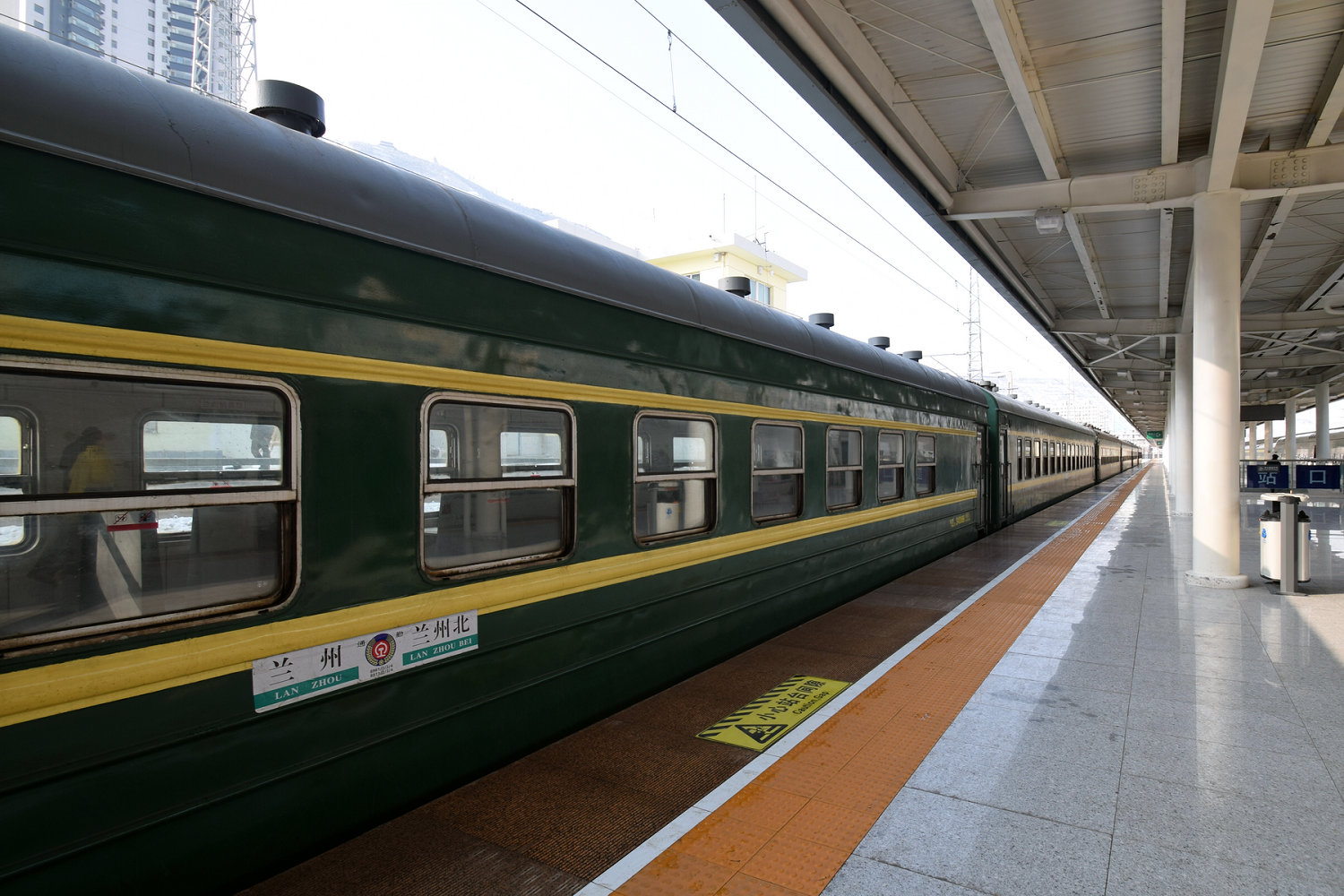 Lanzhou - Lanzhou Bei (North) 8961/8962/8963/8964/8971/8972/8973/8974 22B/25B train was stopping at Platform 6 of Lanzhou Railway Station.